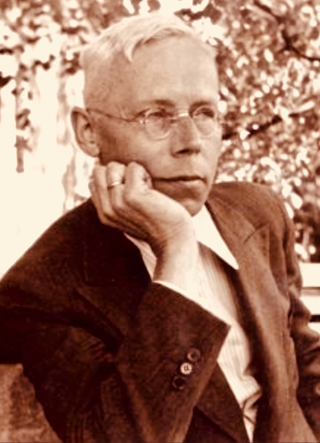 Hans Kollwitz (1892–1971), the eldest son of Karl (1863–1940) and Käthe Kollwitz (1867–1945).